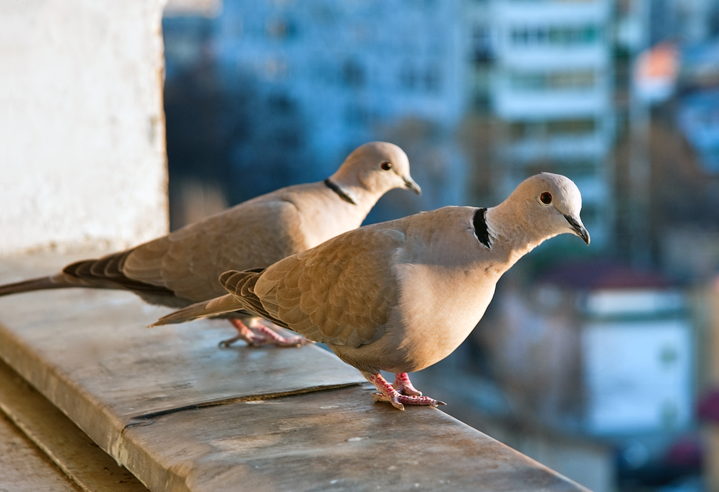 Two Eurasian Collared Doves perching on a balcony and about to take flight.